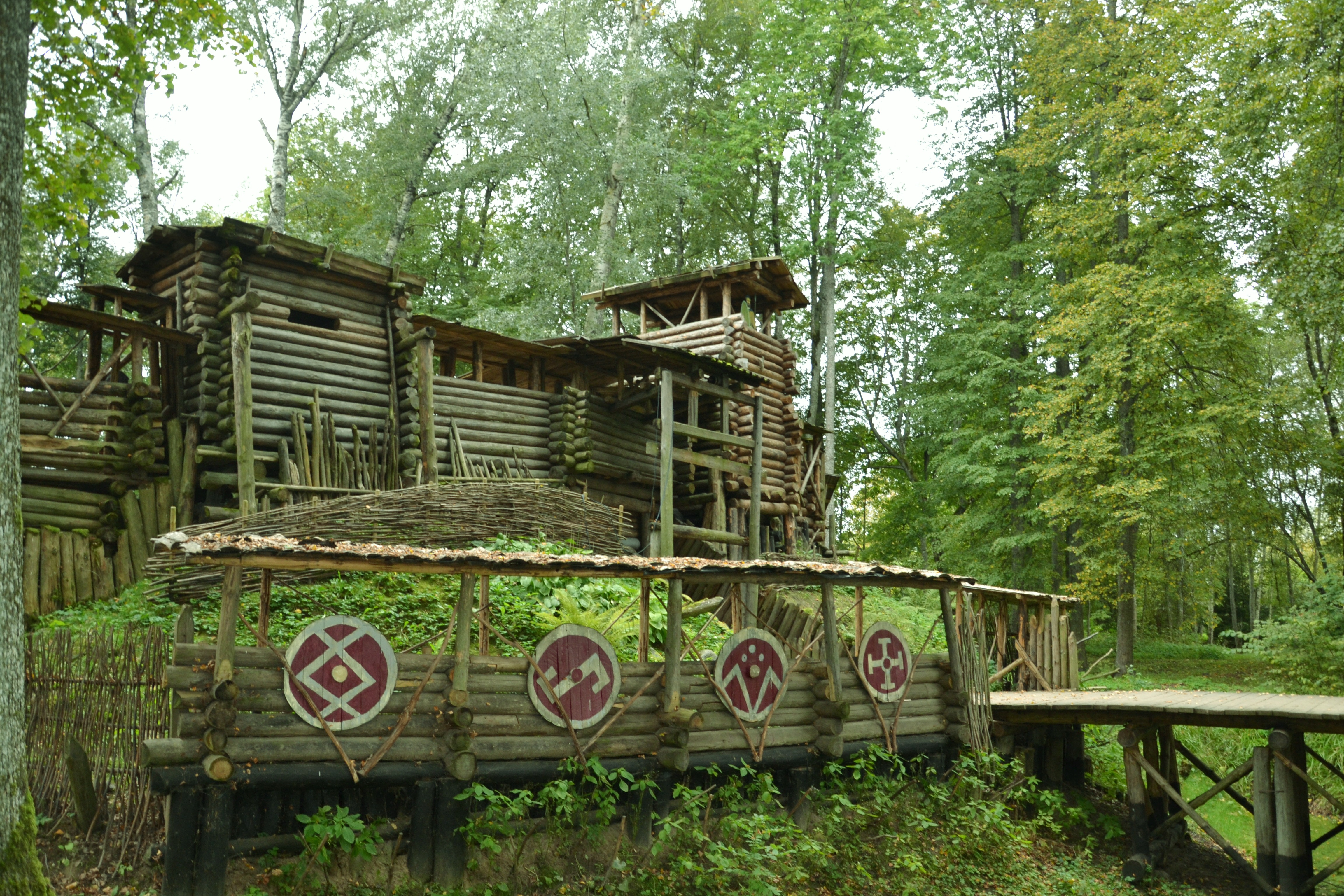 Reconstruction of 12th century Uldevens' wooden castle.